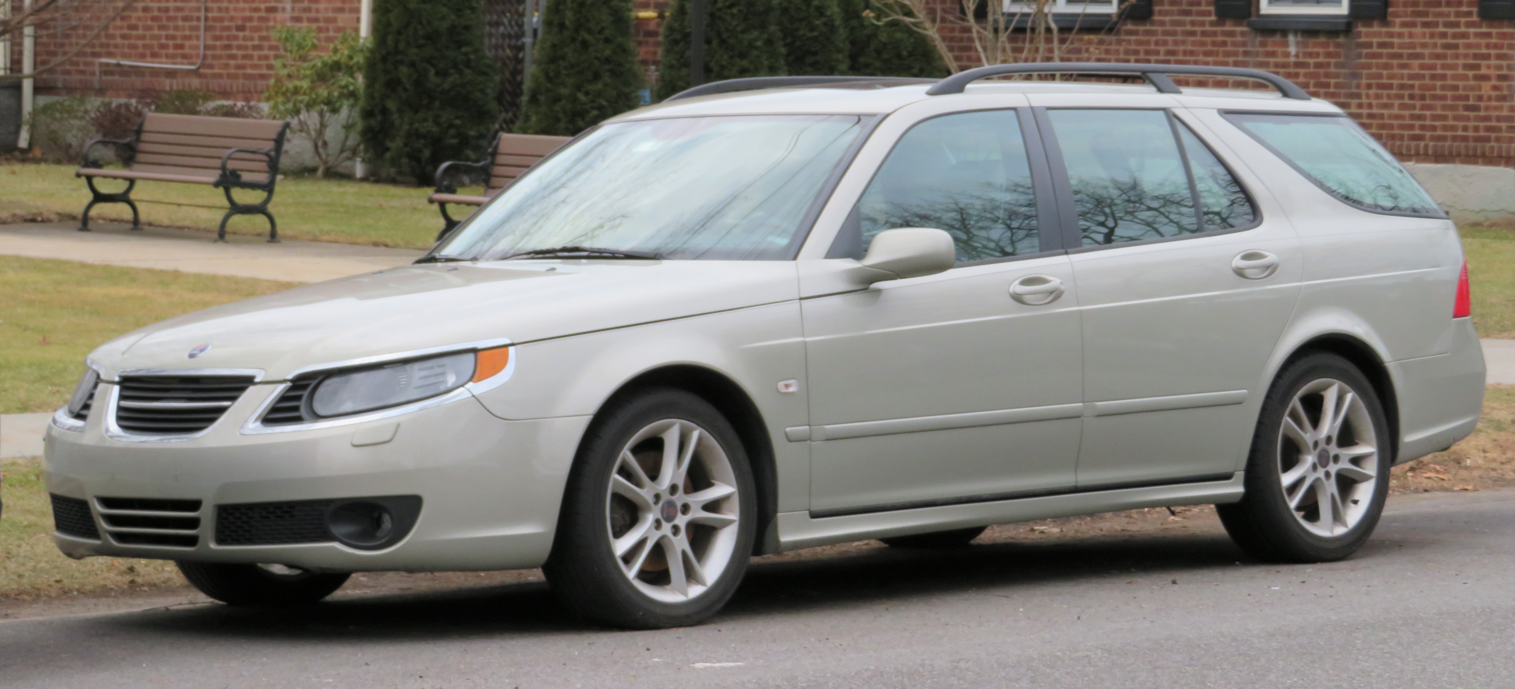 In Queens, New York.